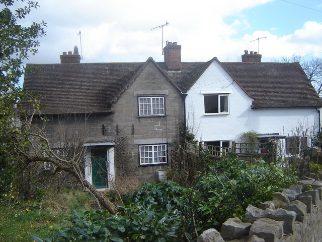 House with original features, Garden City, Chepstow Chepstow Garden City was built for the local boat-builders around 1917-1919. The house on the left has retained the original tiles, windows, door, and lack of rendering. Most of the houses on the Garden City estate have been modernised like the one on the right.